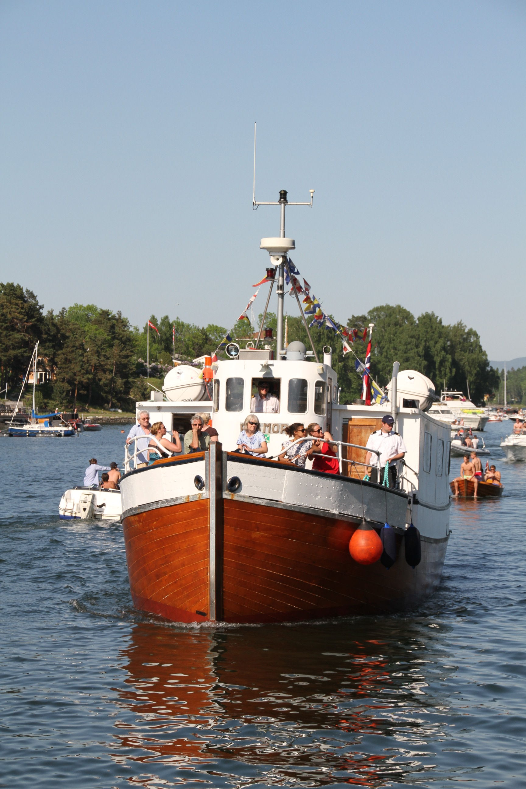 M/F Rigmor in Middagsbukta, Asker (Norway). Oslofjord.